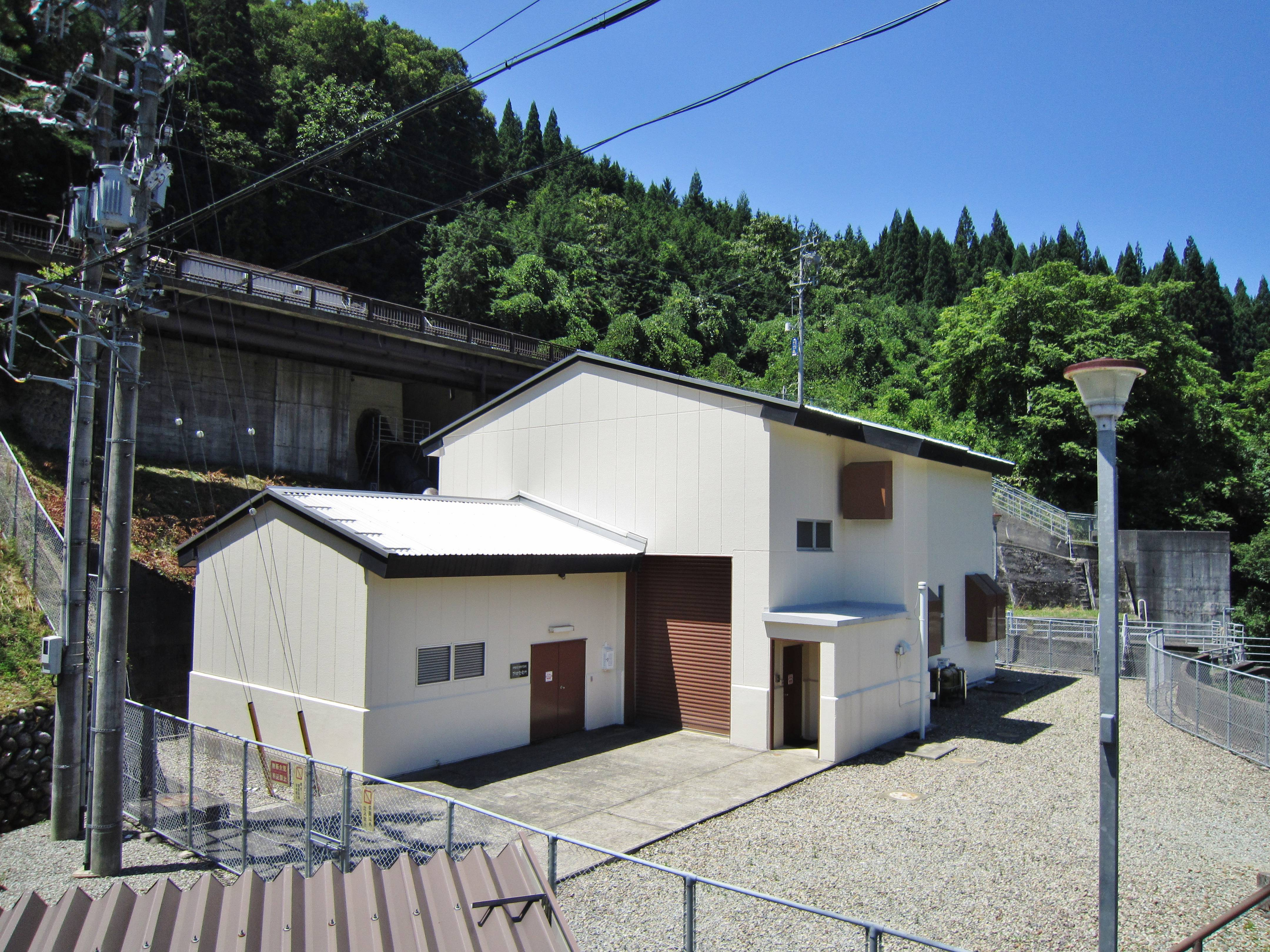 Shimogiri hydroelectric power station.